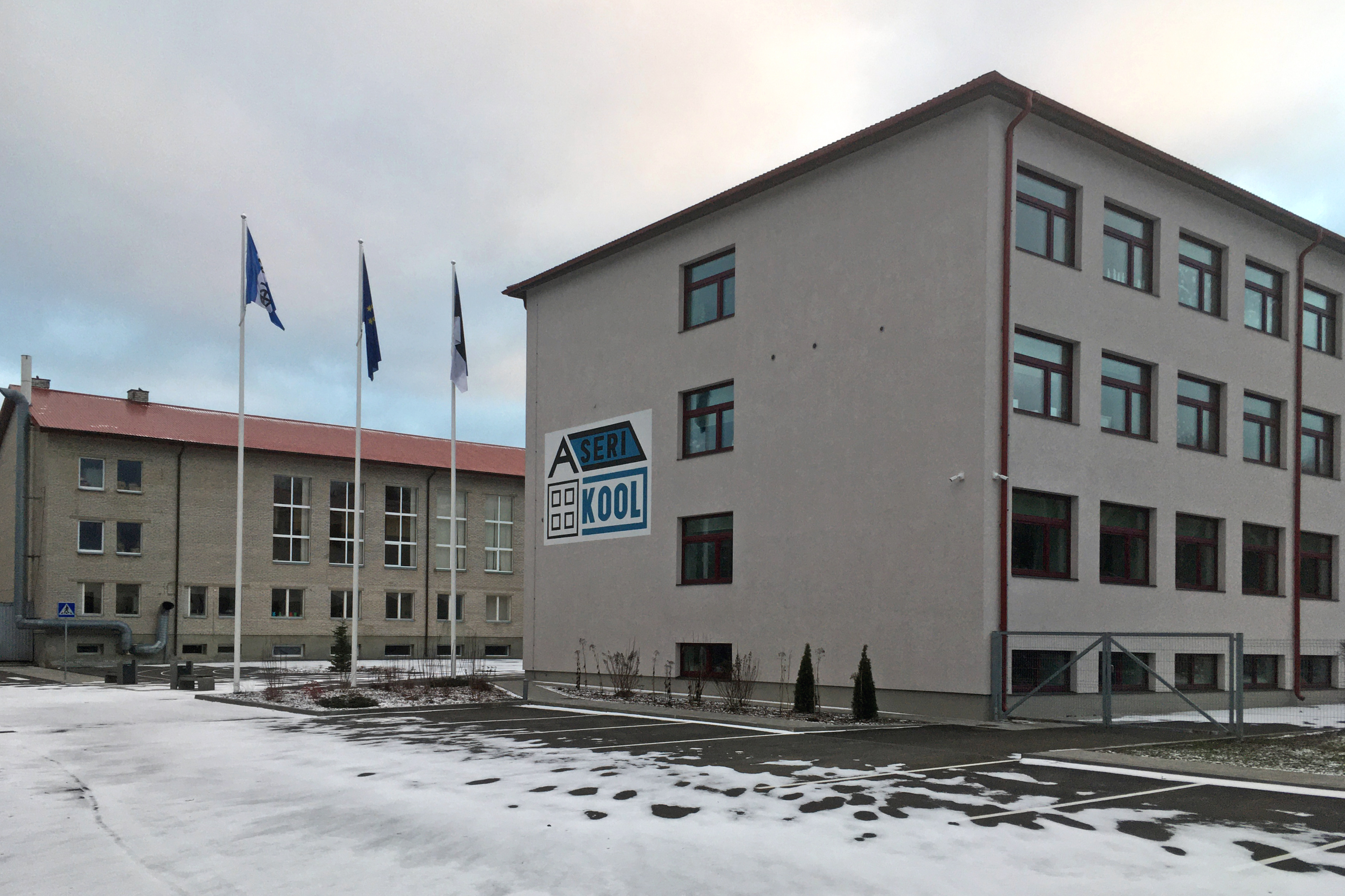 Aseri school in 2019, Estonia